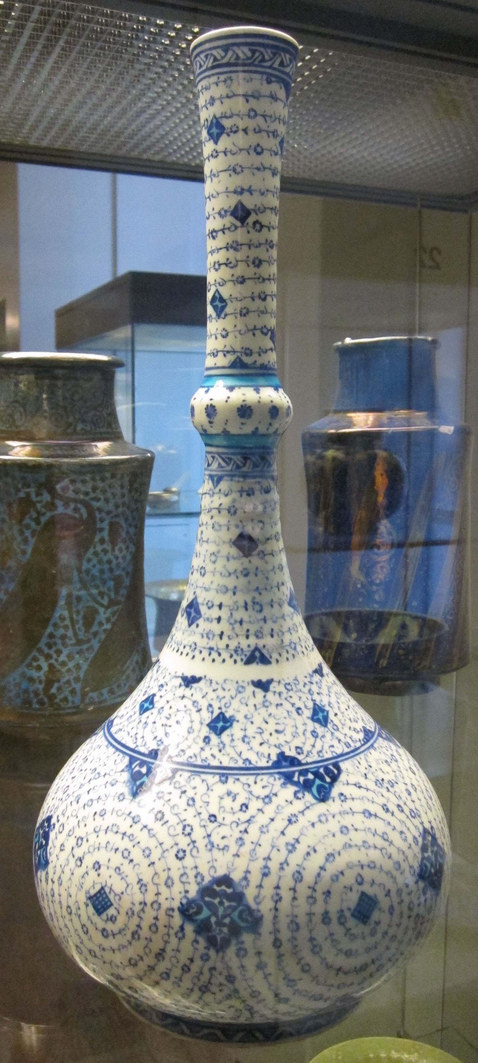 Iznik water bottle decorated in Golden Horn style